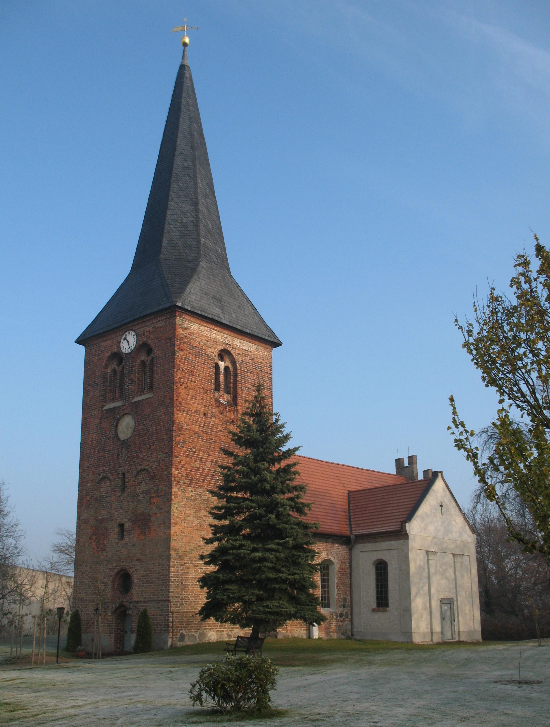 Church in Kremmen-Flatow in Brandenburg, Germany